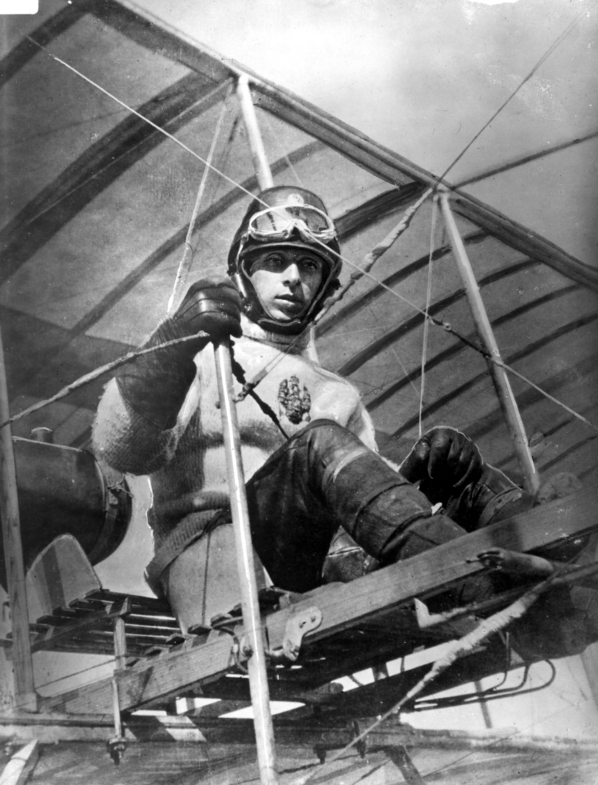 Major Alexander Procofieff de Seversky sits at the controls of an early aircraft, circa 1914.